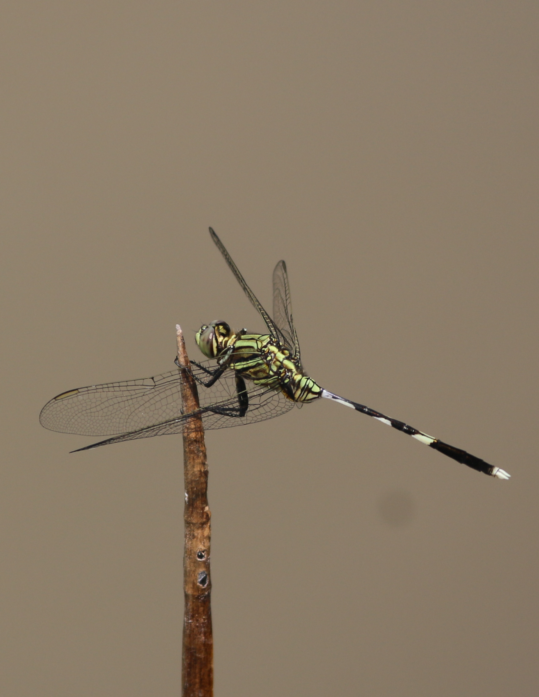 Green Marsh Hawk(Orthetrum sabina)